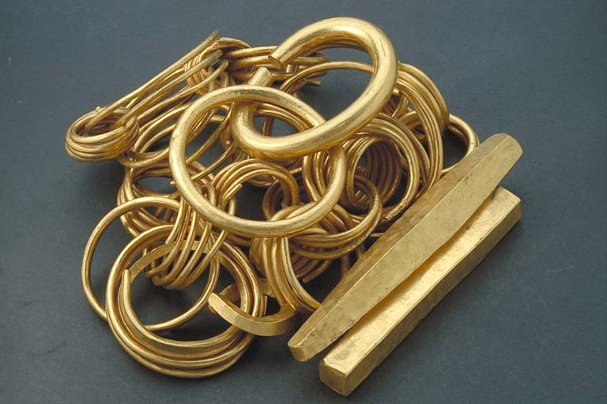 Timboholmsskatten